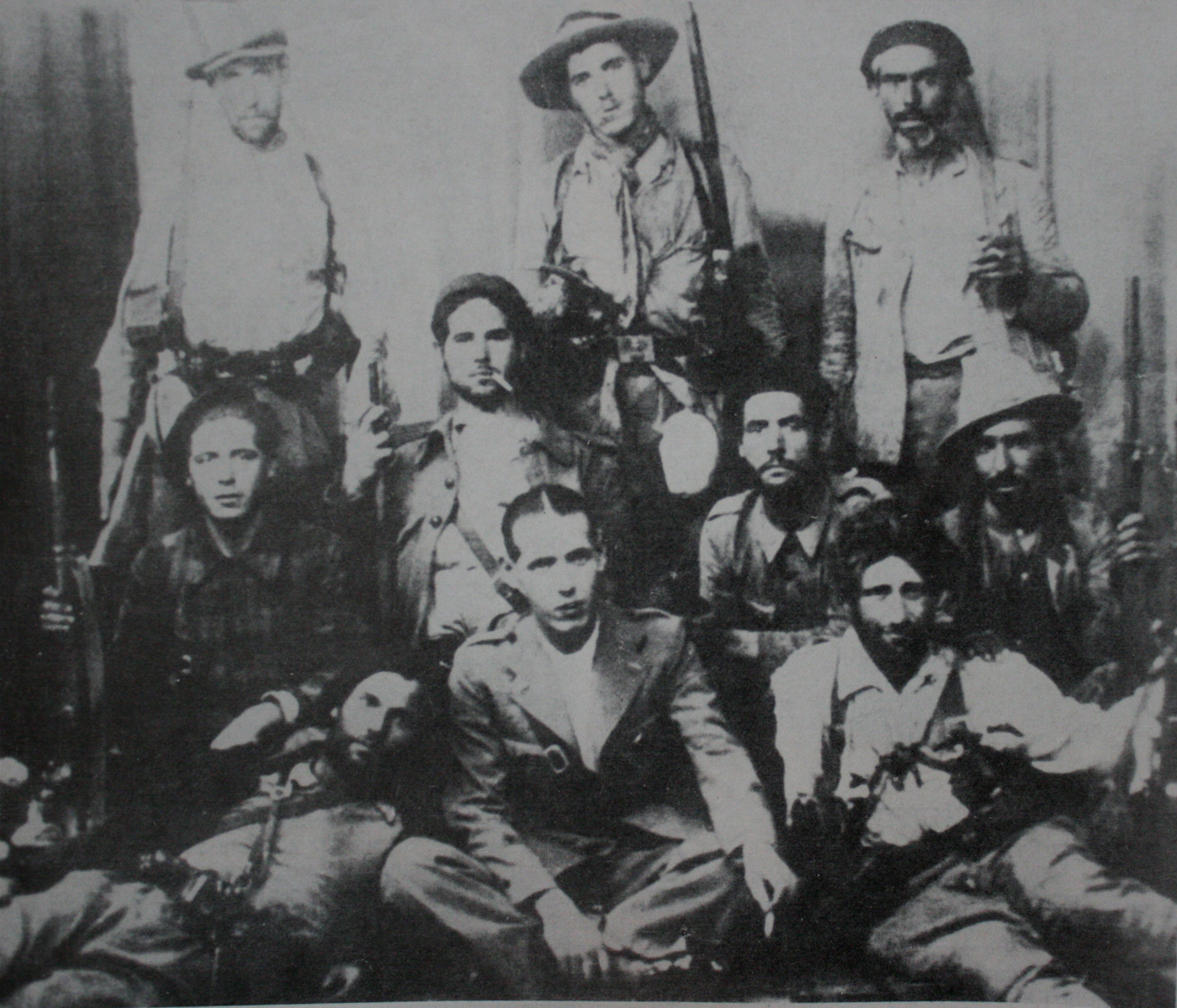 A unit from the Bulgarian International Brigade under the command of Ivan Bitsov, Spanish Civil War, 1937.